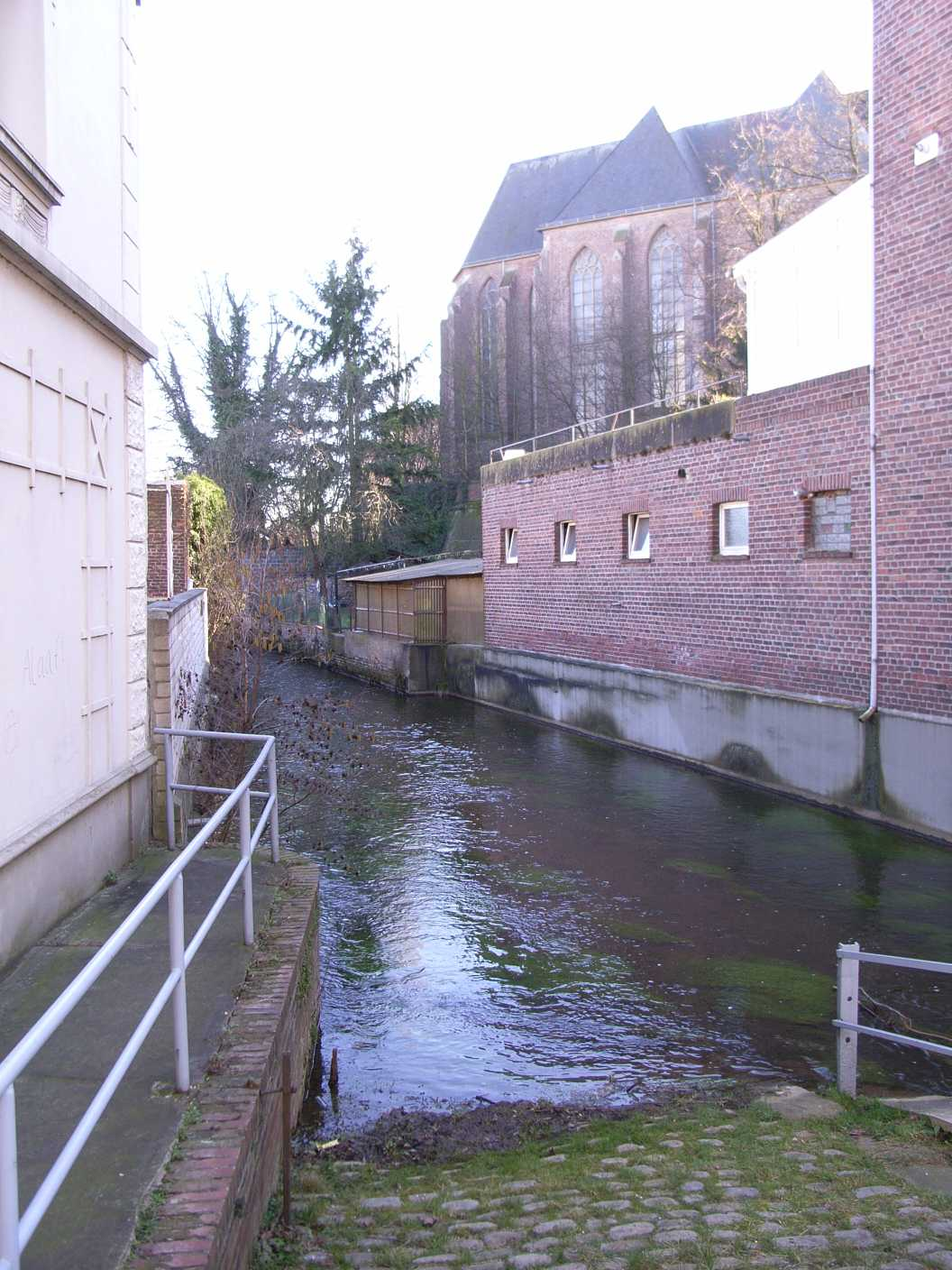 The Merzbach river — in Linnich, North Rhine-Westphalia, western Germany. A tributary of the River Rur (Roer River), which it joins near Linnich.